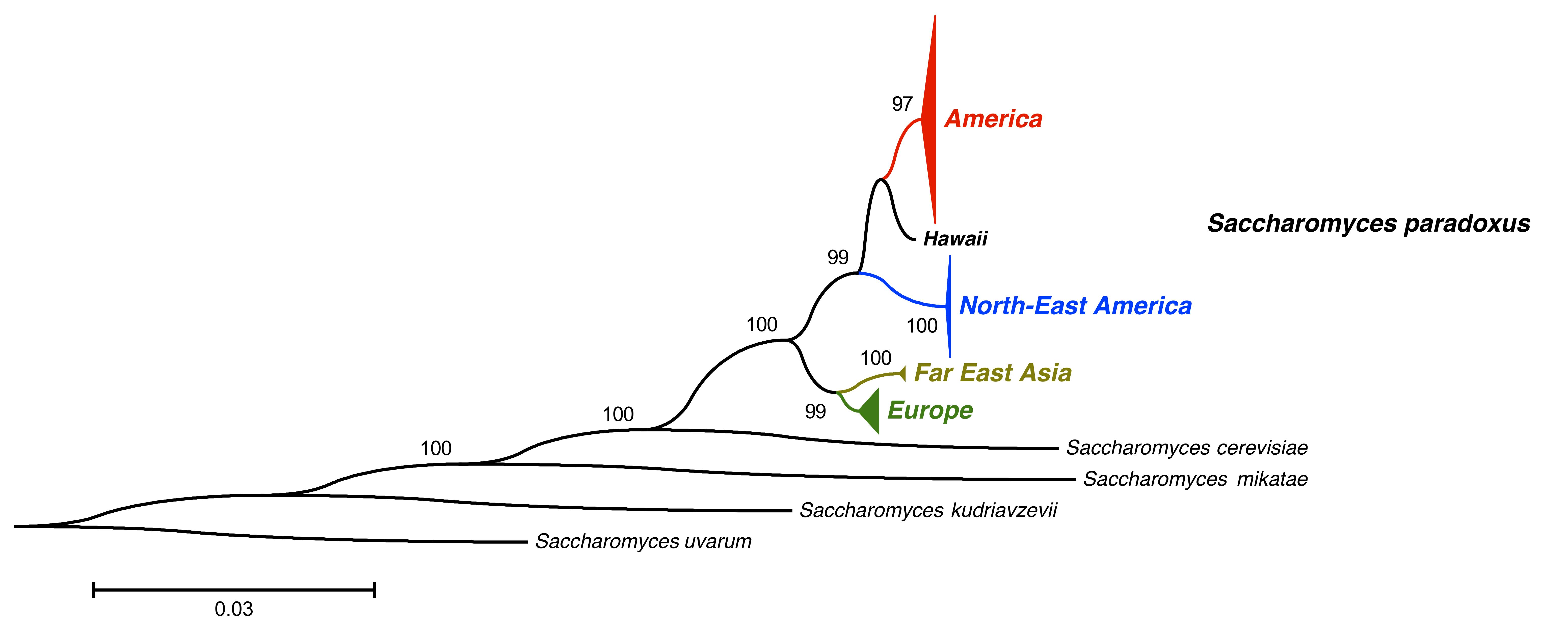 Phylogeny of Saccharomyces paradoxus main populations. The scale indicates nucleotide divergence.